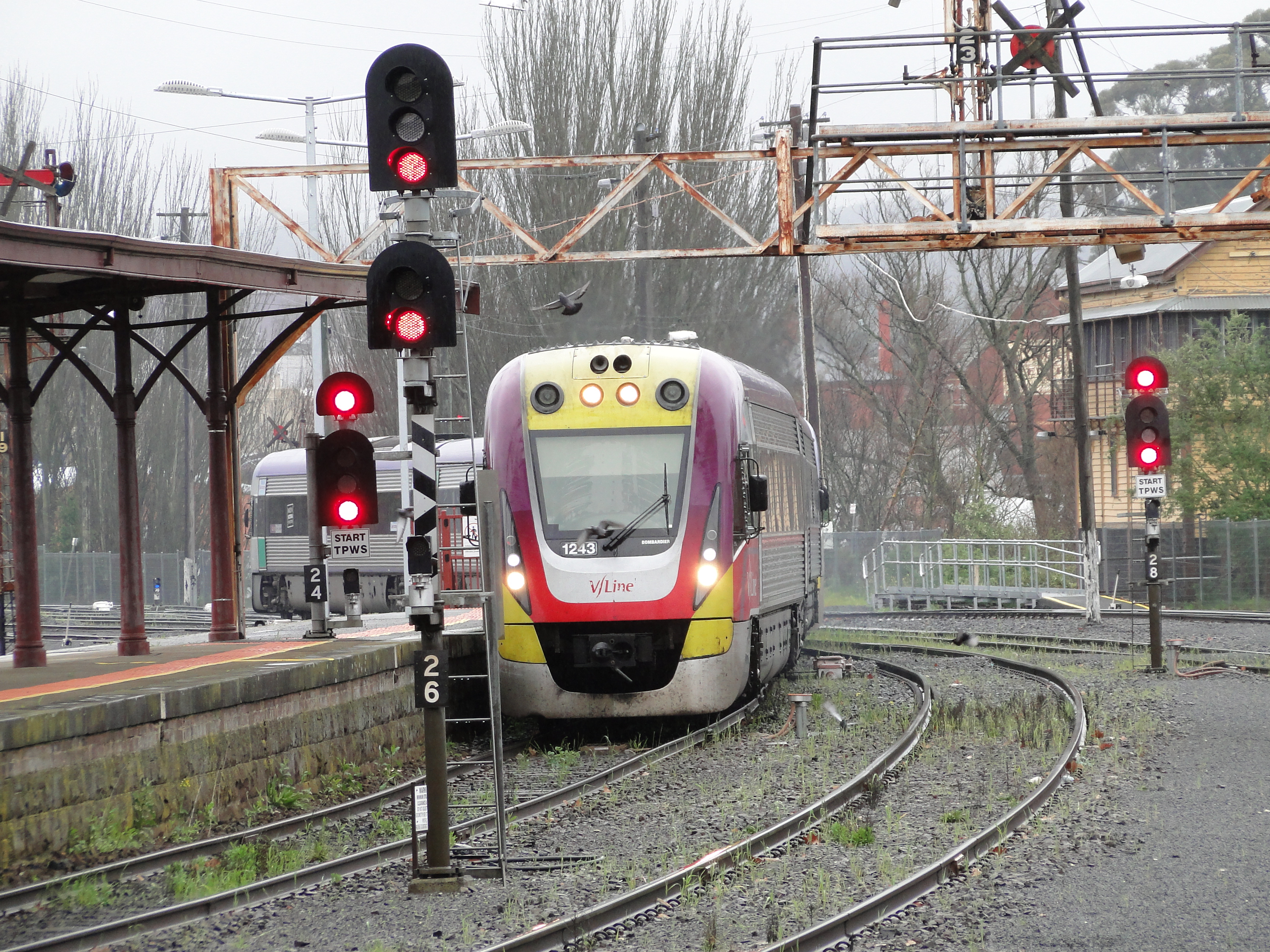 Velocity train entering Ballarat Railway Station from Melbourne